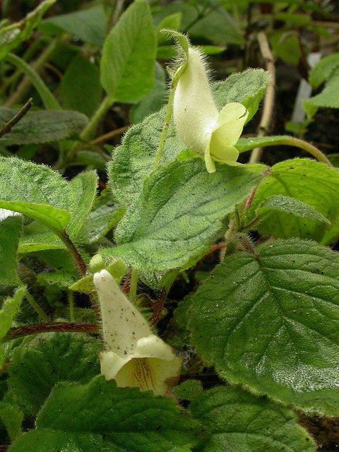 Sinningia conspicua in Teplice Botanical Garden, Czech republic